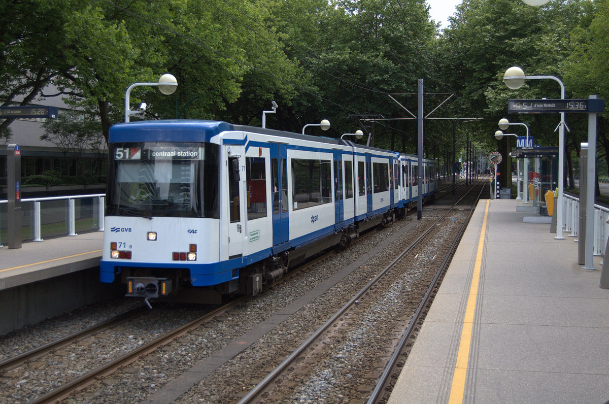 Amsterdam metro Light-rail units 71 and 73 on line 51